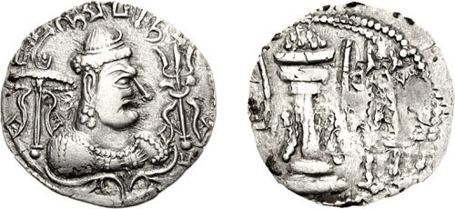 Coin of the Hephthalite ruler Mihirkula.